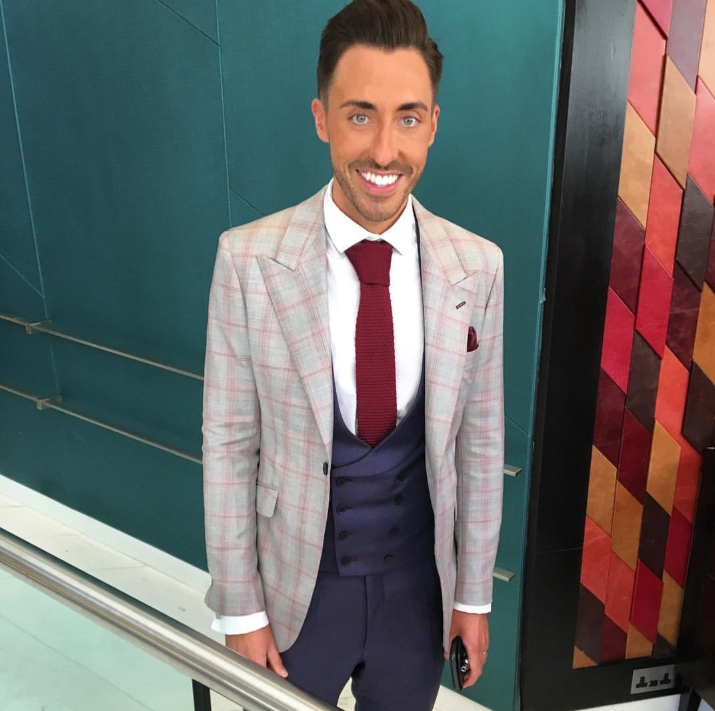 Taken at the British Soap Awards, Hackney Empire, London. June 2nd 2018.